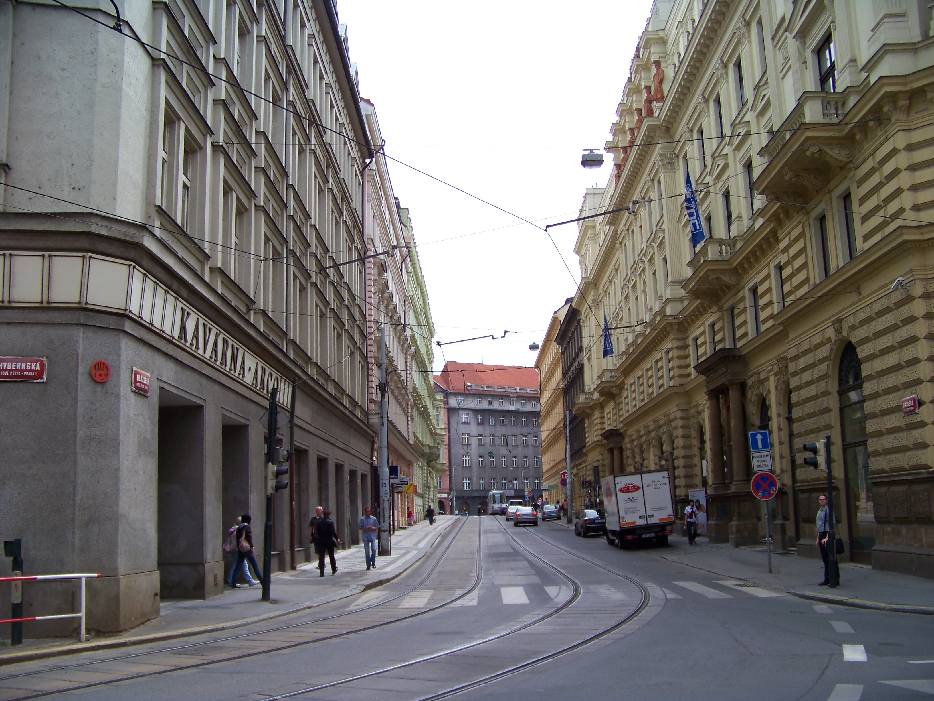 New Town, Prague, the Czech Republic. Dlážděná street.